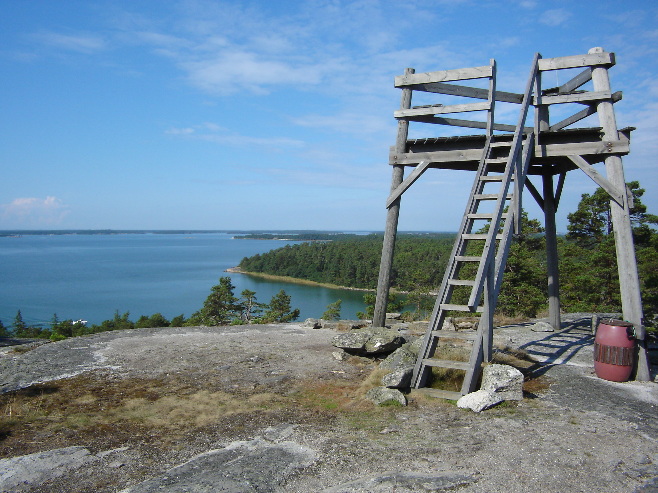 Archipelago Sea viewed from Kasberg rock in Iniö, Väståboland, Finland. Observation tower on top of the Kasberg hill (elevation 40 m).